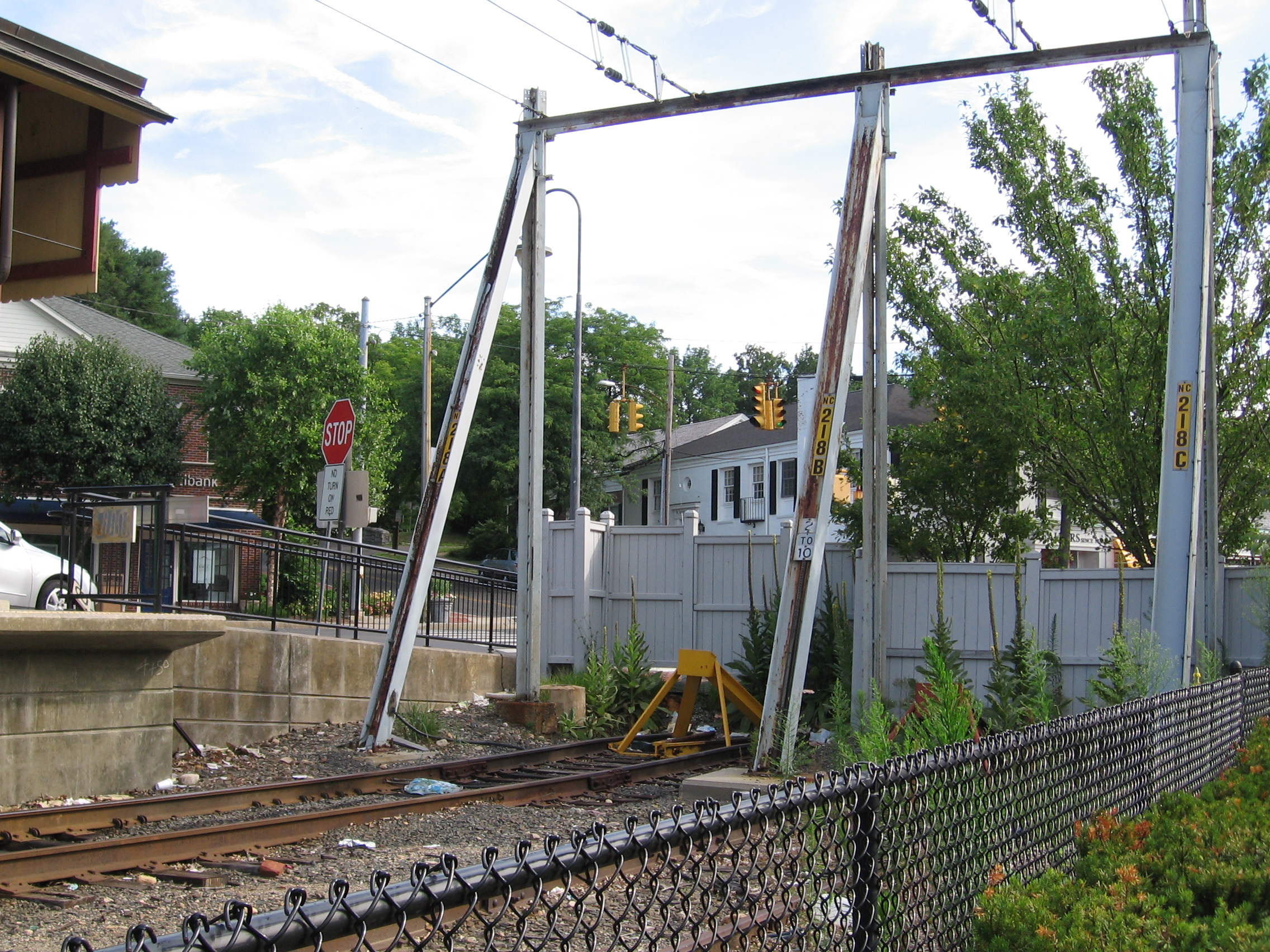 The end of the line of the New Canaan Branch of Metro-North, at the New Canaan station in New Canaan, Connecticut.